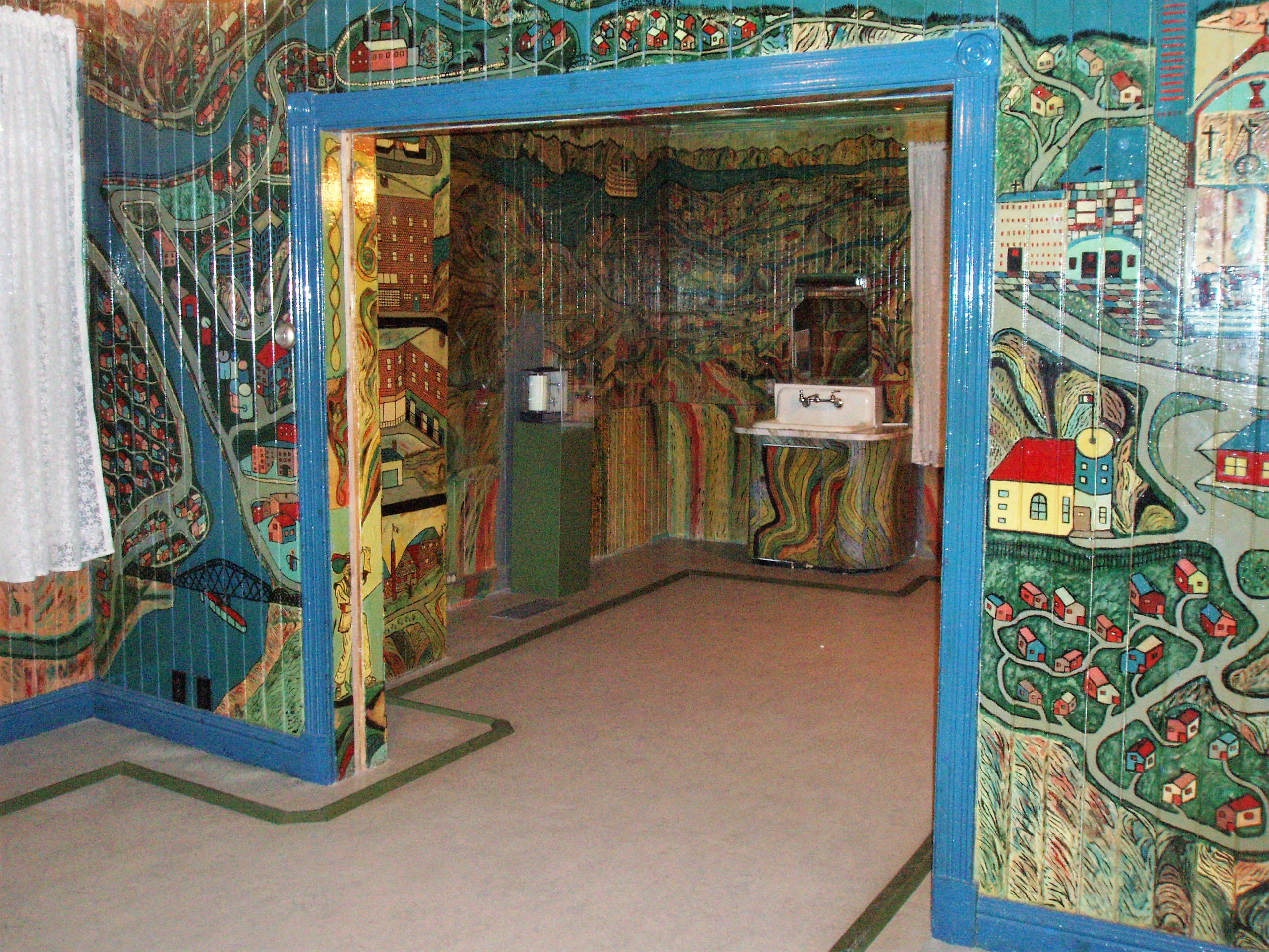 Painted home of renown Chicoutimi artist Arthur Villeneuve, now preserved at the Pulperie Museum.